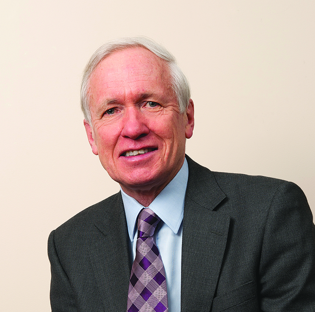 Simple headshot